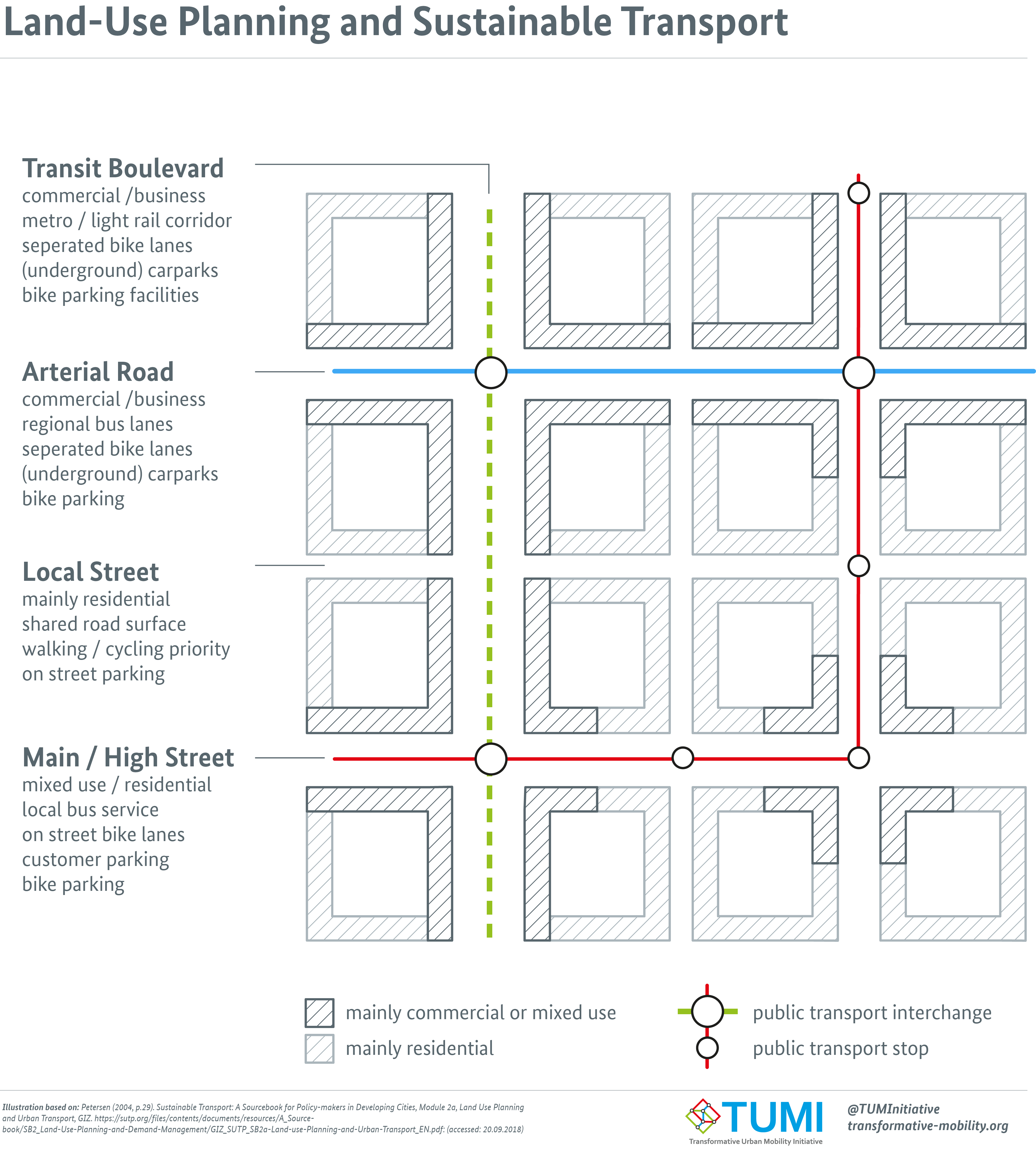 Land-Use Planning and Sustainable Transport Transit Boulevard commercial / business metro / light rail corridor seperated bike lanes (underground) carpark bike parking facilities Arterial Road commercial/business regional bus lanes seperated bike lanes (underground) car parking Local Street mainly residential shared road surface walking / cycling priority on street parking Main / High Street mixed use / residential local bus service on street bike lanes customer parking bike parking